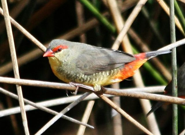 Location: Cedara farm, Pietermaritzburg, South Africa.